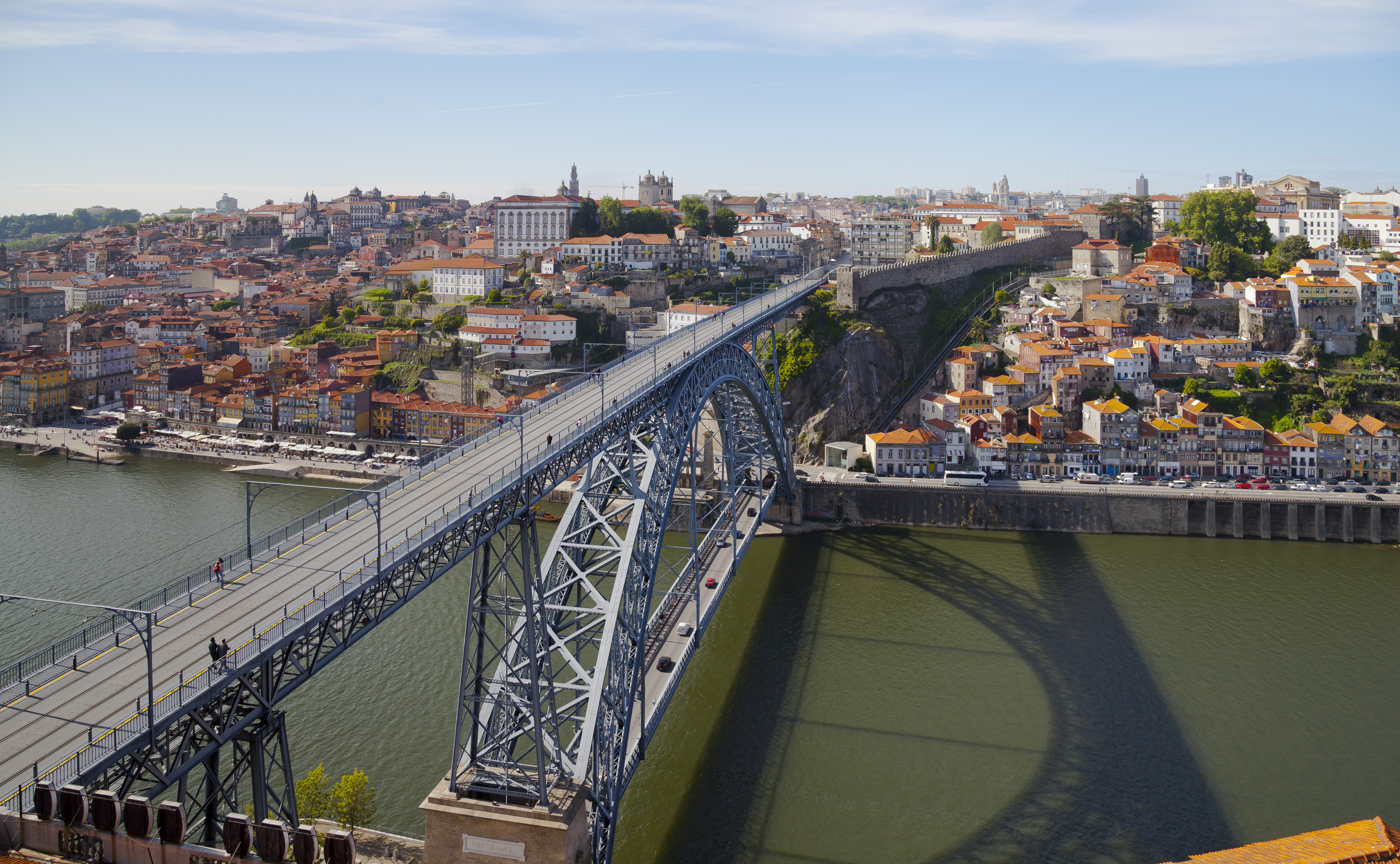 Dom Luis I bridge over the Douro river connecting Vila Nova de Gaia and Porto, in Portugal.